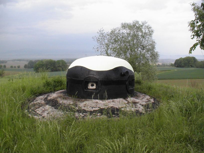 Bell GFM casemate n°87 des Vernes (Magstatt-le-Bas, Maginot Line)